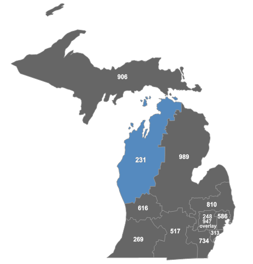 Area code map of Michigan highlighting the region covered by area code 231.